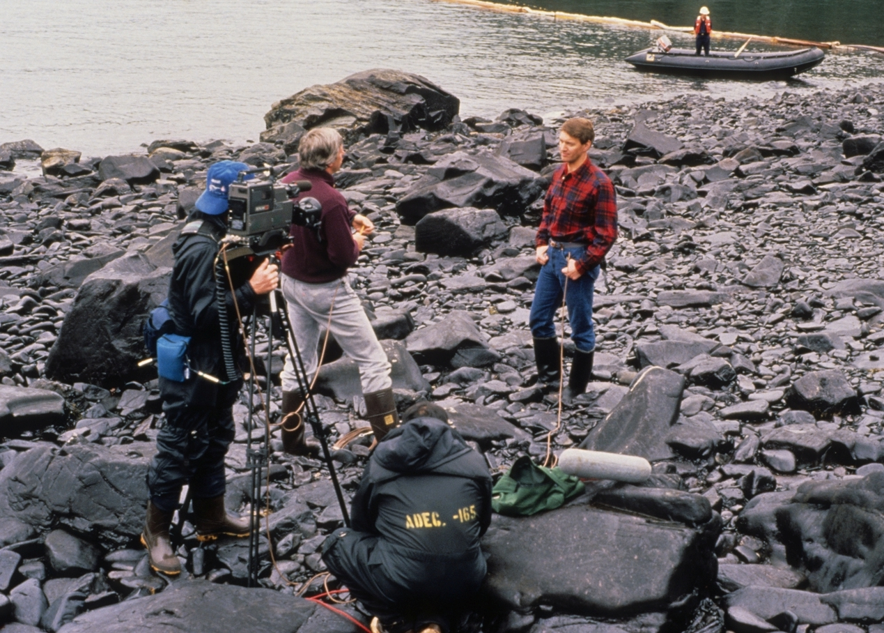 A crew from KCTS, the public television station in Seattle, interviews Dennis Kelso, commissioner of the Alaska Department of Environmental Conservation, during the cleanup of the Exxon Valdez Oil Spill.